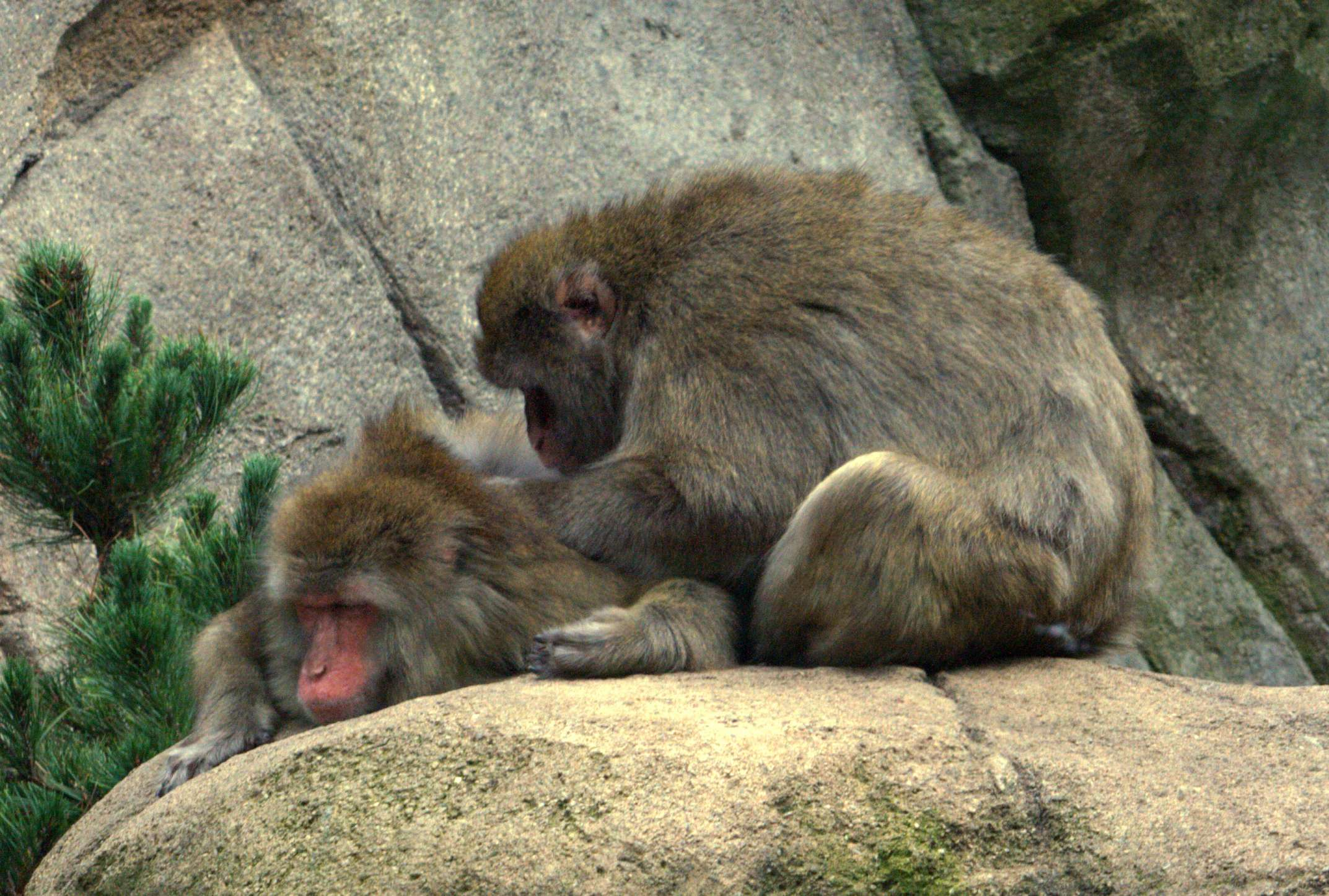 Two Japanese Macaques, at the Buffalo Zoo, engaged in social groooming.